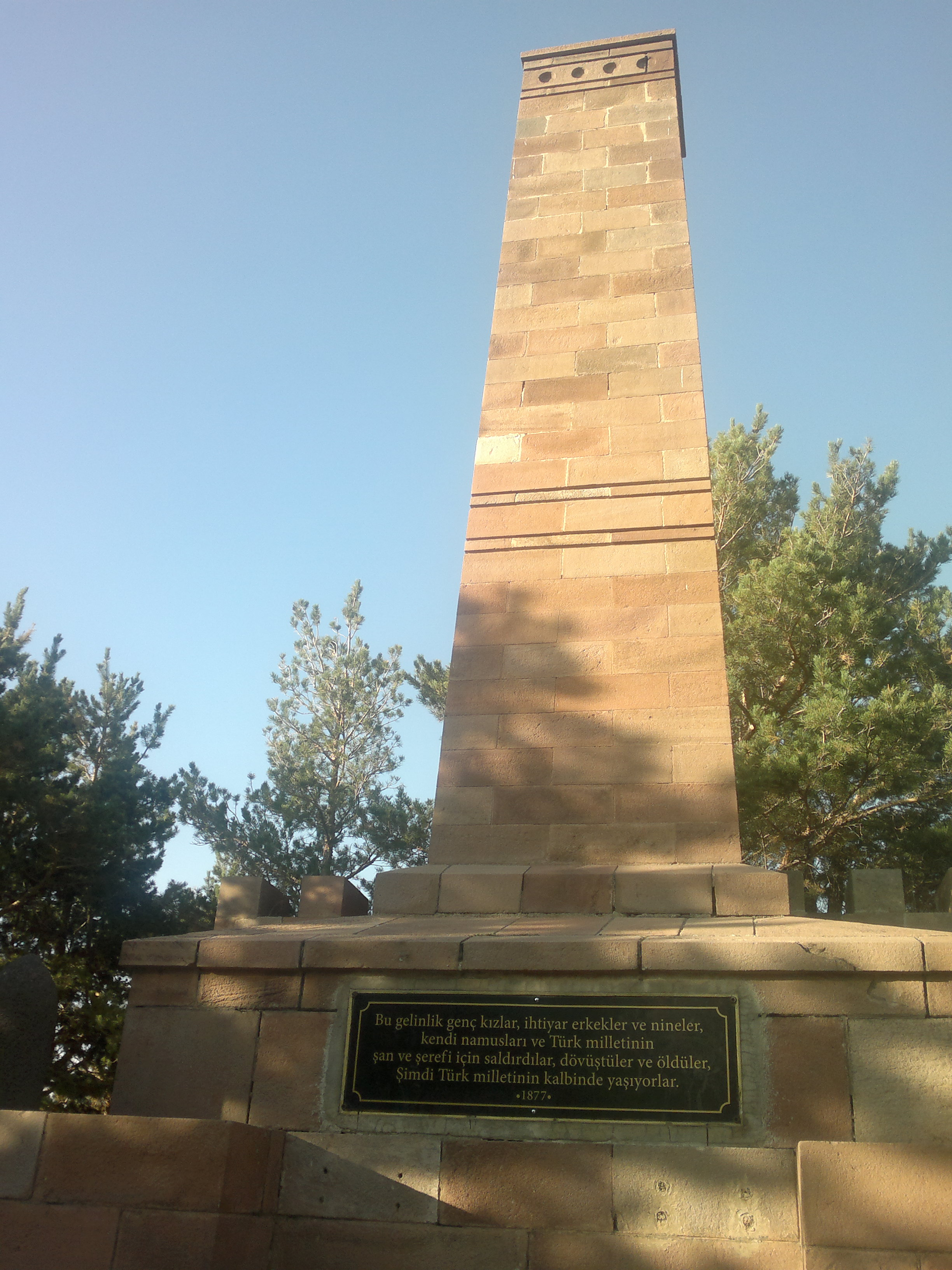 "Erzurum Aziziye Redoubts (Erzurum Tabyaları)" in Erzurum, Turkey.